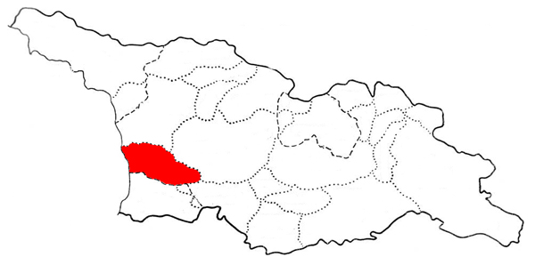 Map of Guria, historical region of Georgia